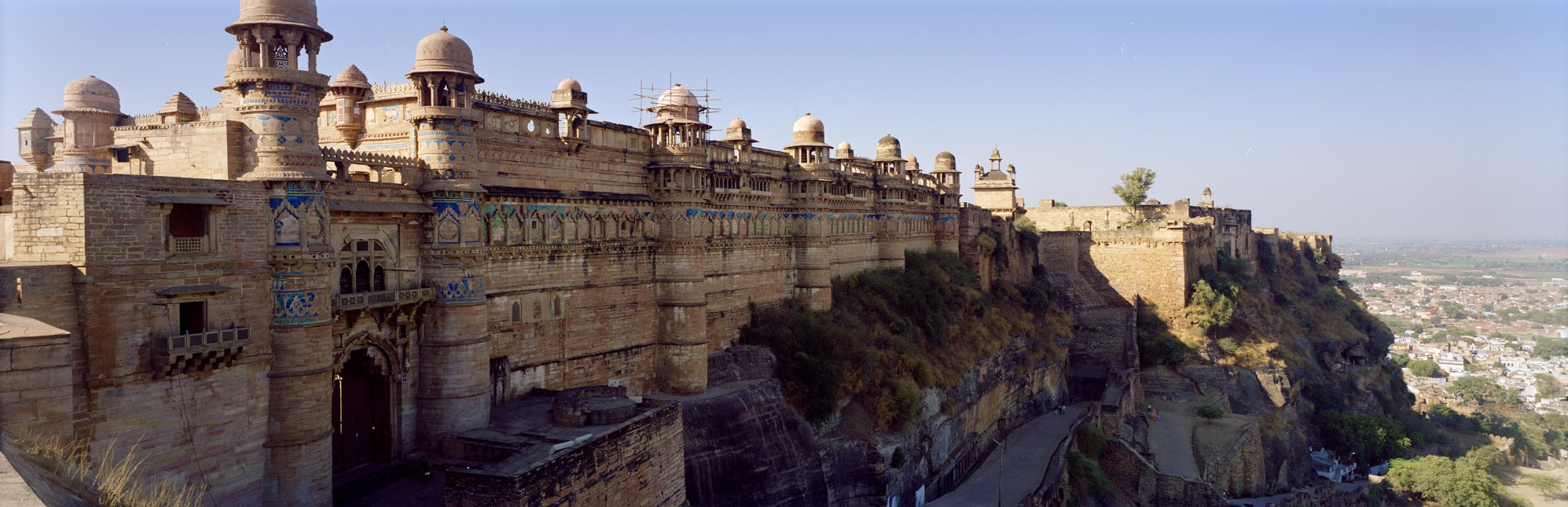 Gwalior fort panorama